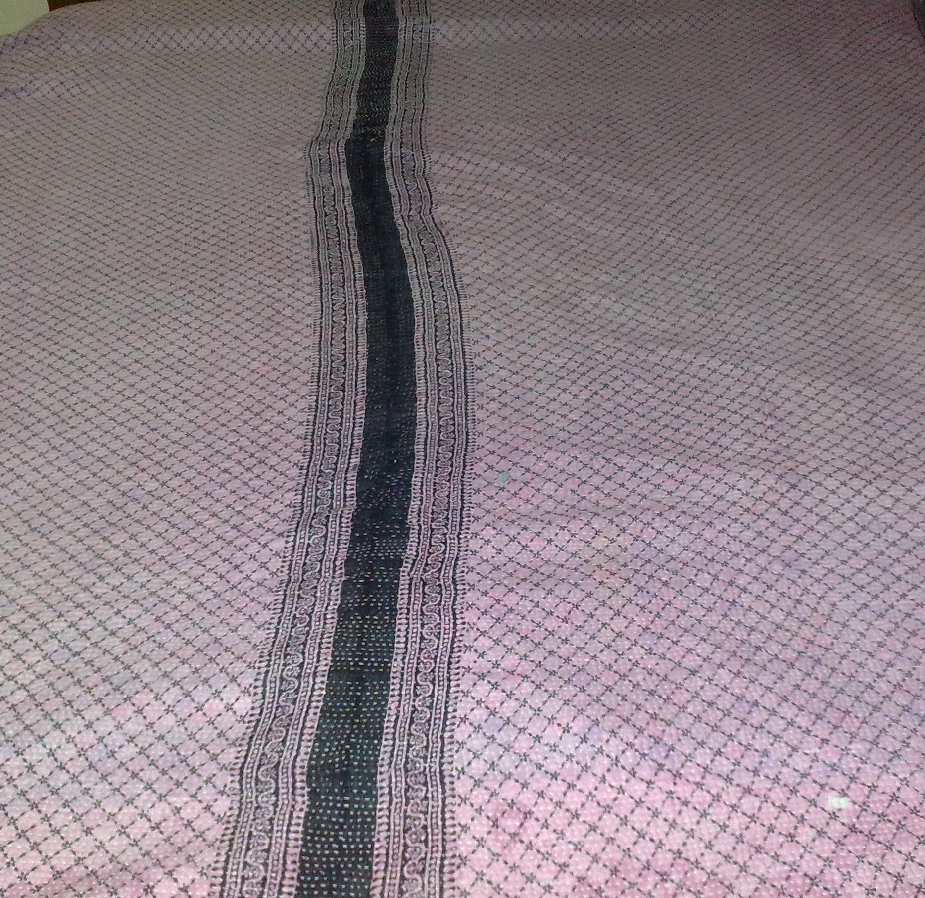 image of kantha used as bed